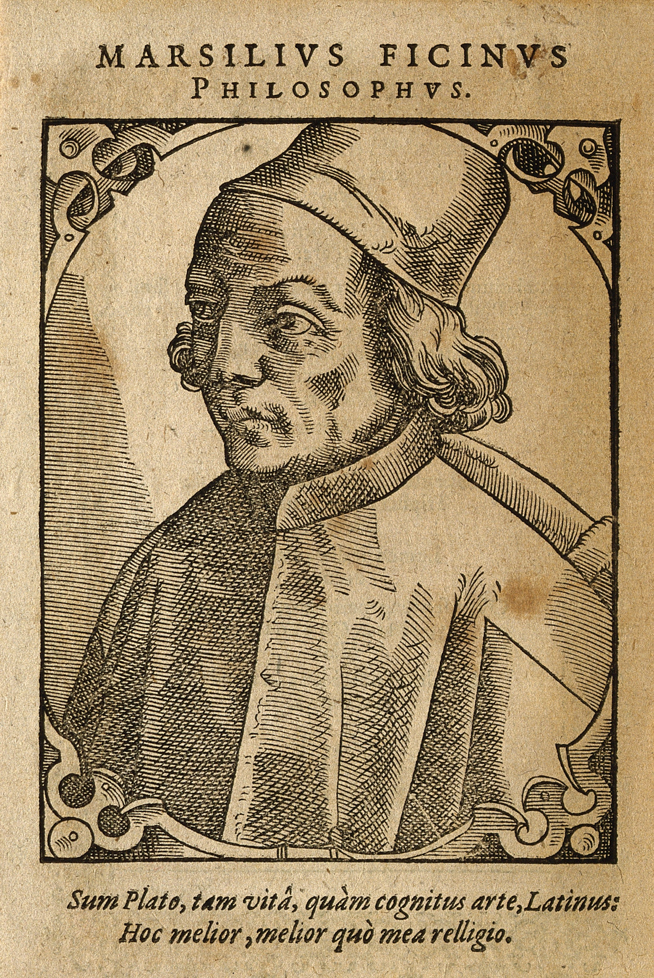 Marsilius Ficinus. Woodcut by T. Stimmer. Iconographic Collections Keywords: portrait prints; woodcuts; Tobias Stimmer; Marsilius Ficinus